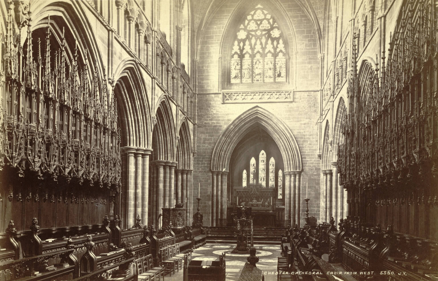 Collection: A. D. White Architectural Photographs, Cornell University Library Accession Number: 15/5/3090.01045 Title: Chester Cathedral, Choir seen from West Photographer: James Valentine (Scottish, 1815-1880) Photograph date: ca. 1870-ca. 1880 Building Date: ca. 1250-ca. 1500 Location: Europe: United Kingdom; Devon Materials: albumen print Image: 5.315 x 8.3071 in.; 13.5 x 21.1 cm Provenance: Gift of Mrs. Chamberlain Persistent URI: [1] There are no known U.S. copyright restrictions on this image. The digital file is owned by the Cornell University Library which is making it freely available with the request that, when possible, the Library be credited as its source. We had some help with the geocoding from Web Services by Yahoo!